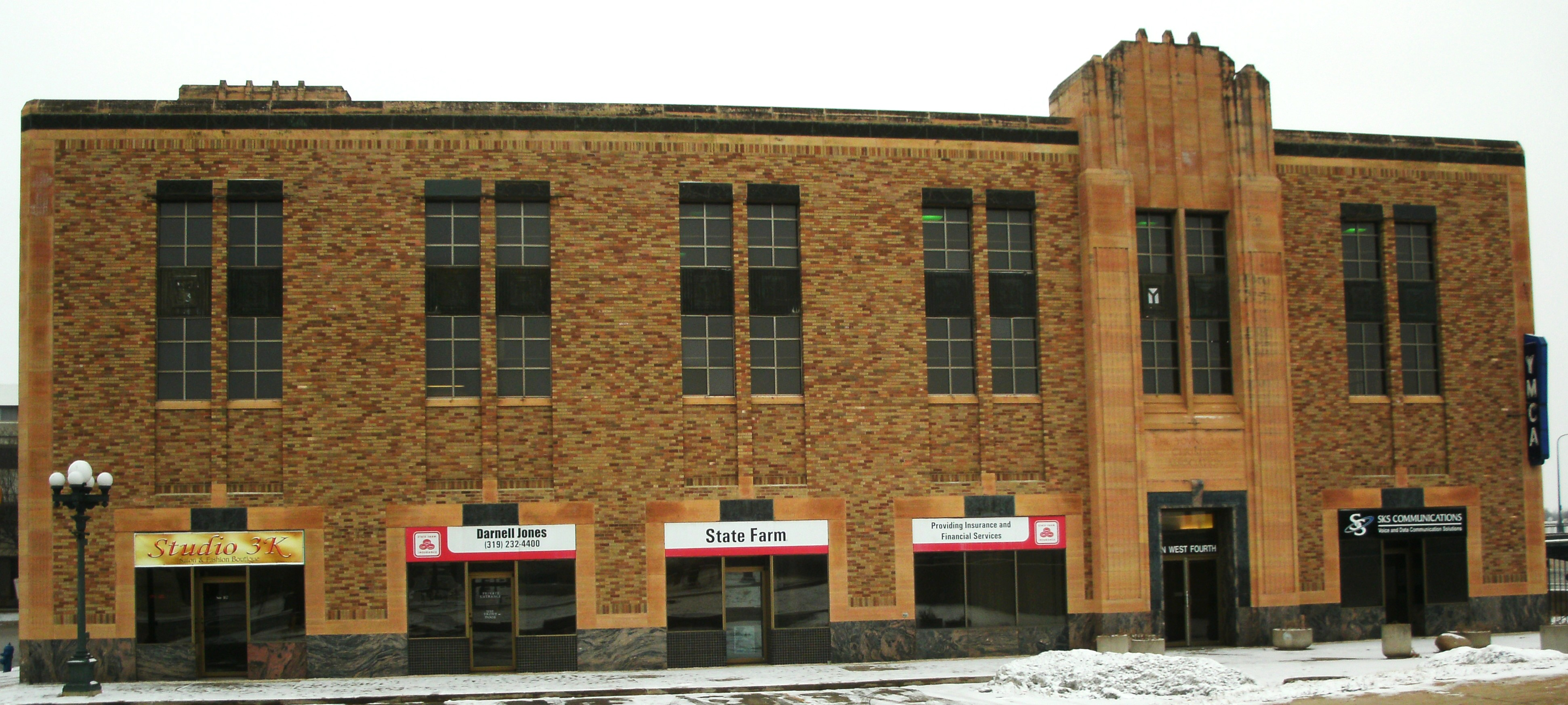 The YMCA building located at 154 West 4th Street in Waterloo, Black Hawk County, Iowa is on the National Register of Historic Places.